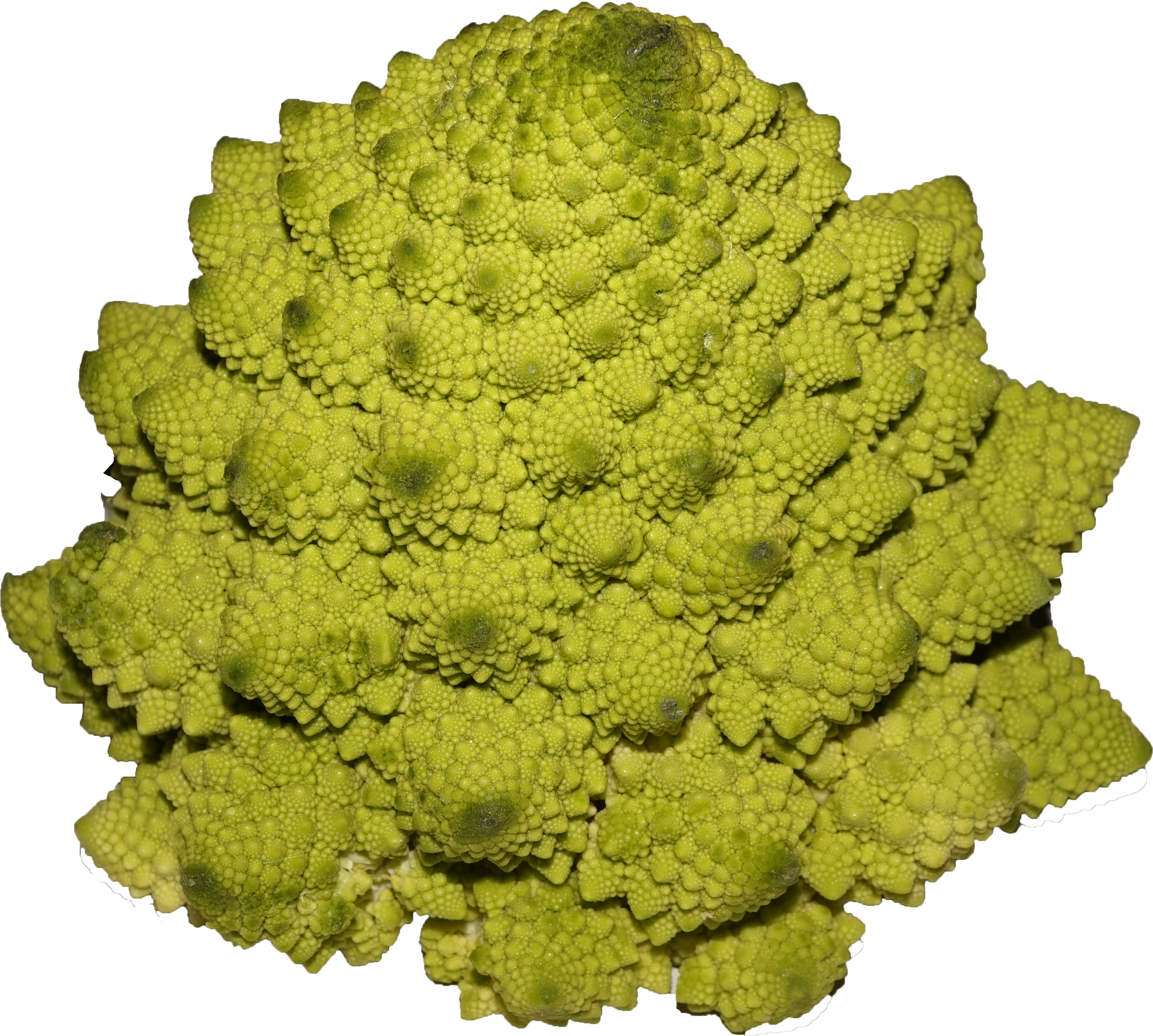 Romanesco broccoli